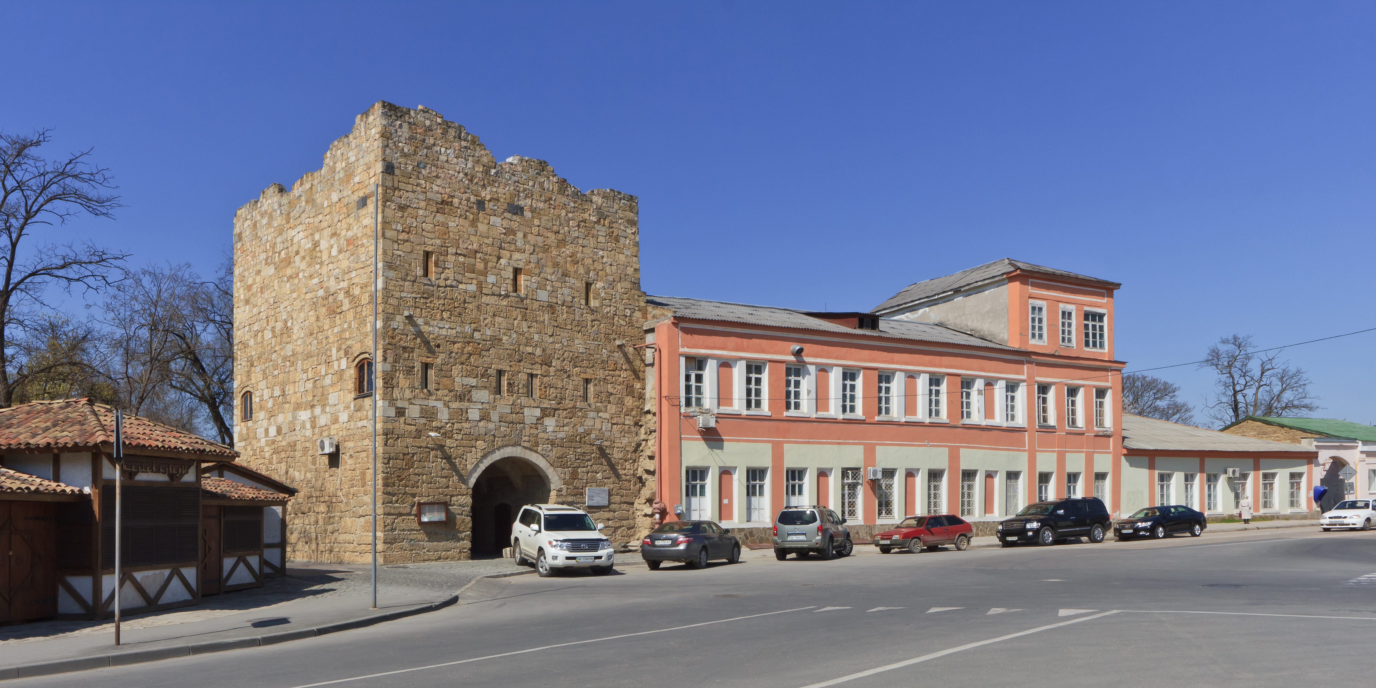 The tower with the old town gate in Eupatoria, Crimean Peninsula.